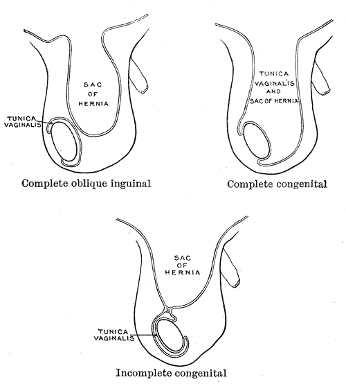 Varieties of oblique inguinal hernia.